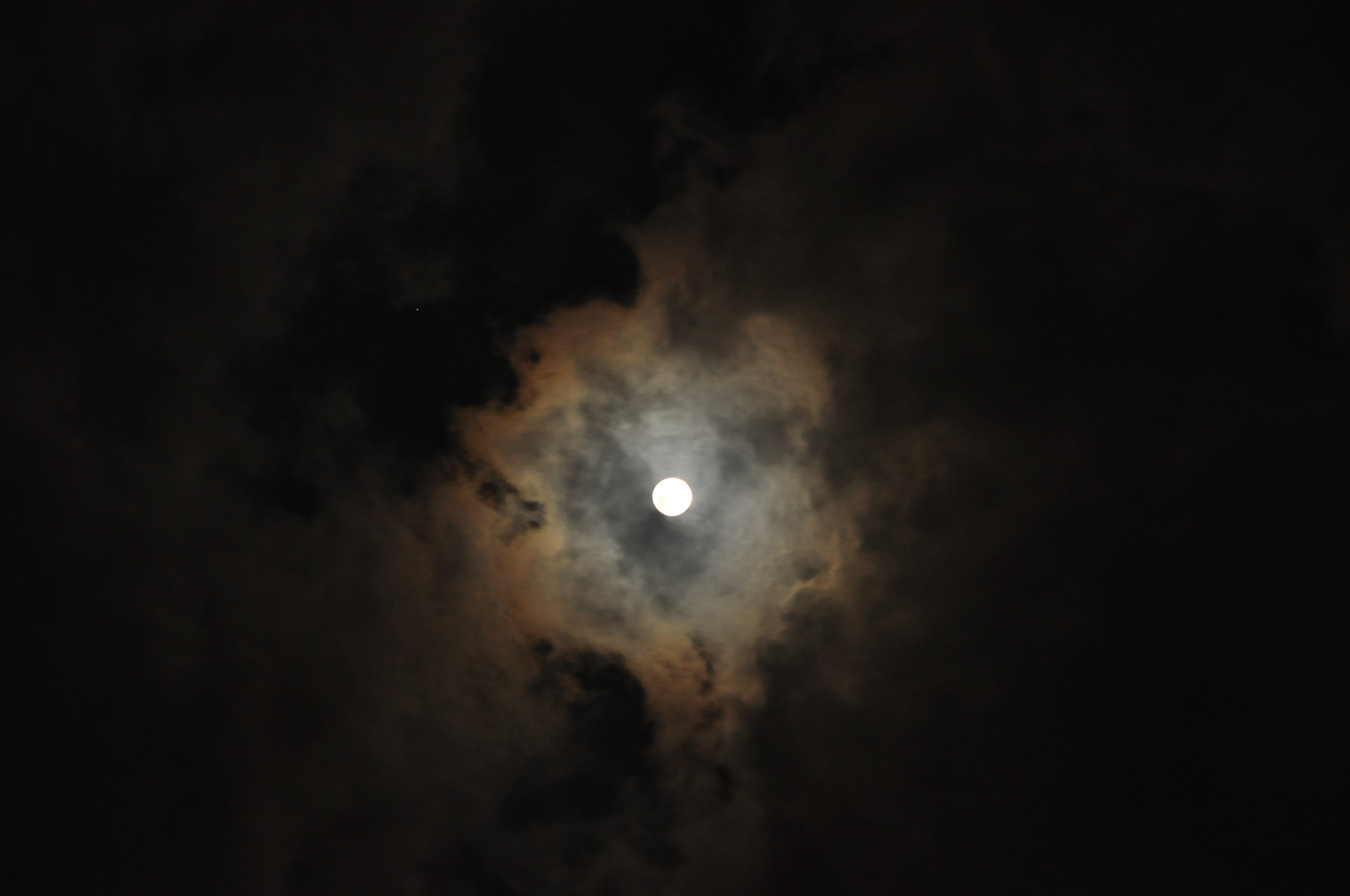 Lunar Corona . Moonlight by cloud layer but the Moon this time looks like is the flower bud which likely is in full bloom.The side small white spot is an starlight .